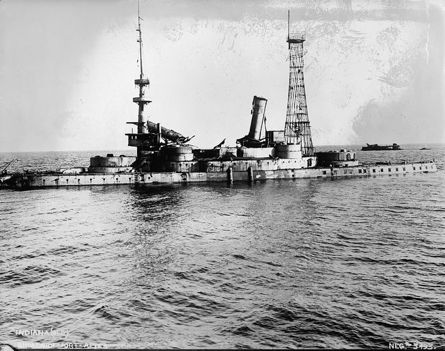 Indiana (BB-1) serving as a target for U.S. Army bombers in Chesapeake Bay, 27 September 1921. The old Texas (renamed San Marcos) lies to her right.